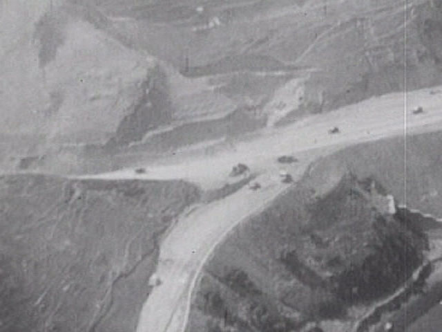 This is an aerial view looking west at 37°40′32″N 122°23′28″W / 37.67550°N 122.39104°W in 1929, at the then-new Bayshore Highway (now Bayshore Boulevard) at Sierra Point in Brisbane, San Mateo County, California. The old road is in the foreground, and the new road cuts through the hill, a forerunner of U.S. Route 101. The tunnel on the Southern Pacific Railroad's 1907 Bayshore Cut-Off of the Coast Line (now Caltrain) on the right no longer exists, as most of the land east of the 1929 Bayshore Highway has been cut down.